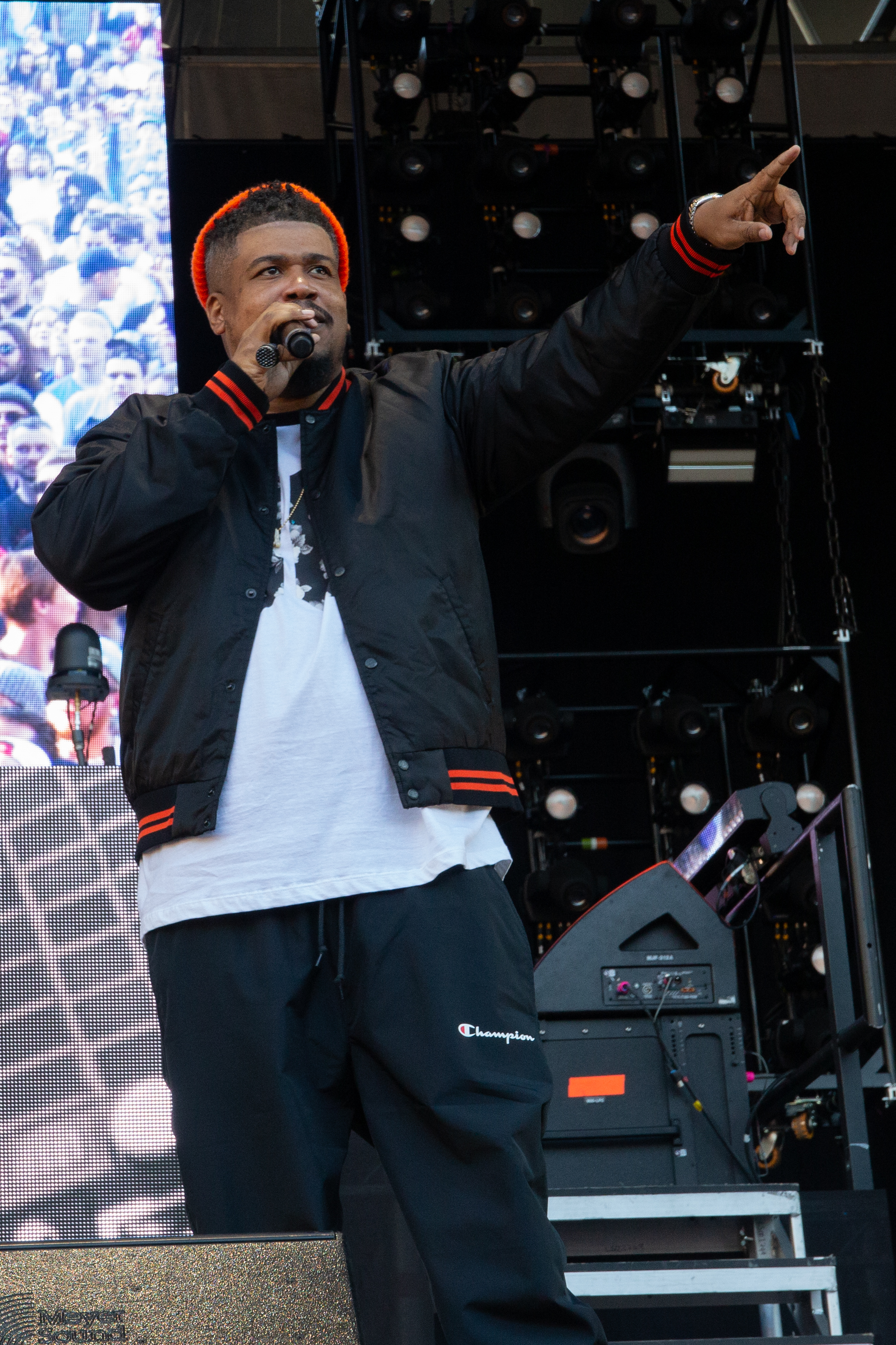 David Jude Jolicoeur aka Dave of De La Soul at Gods of Rap 2019 in Berlin, Germany - Parkbühne Wuhlheide